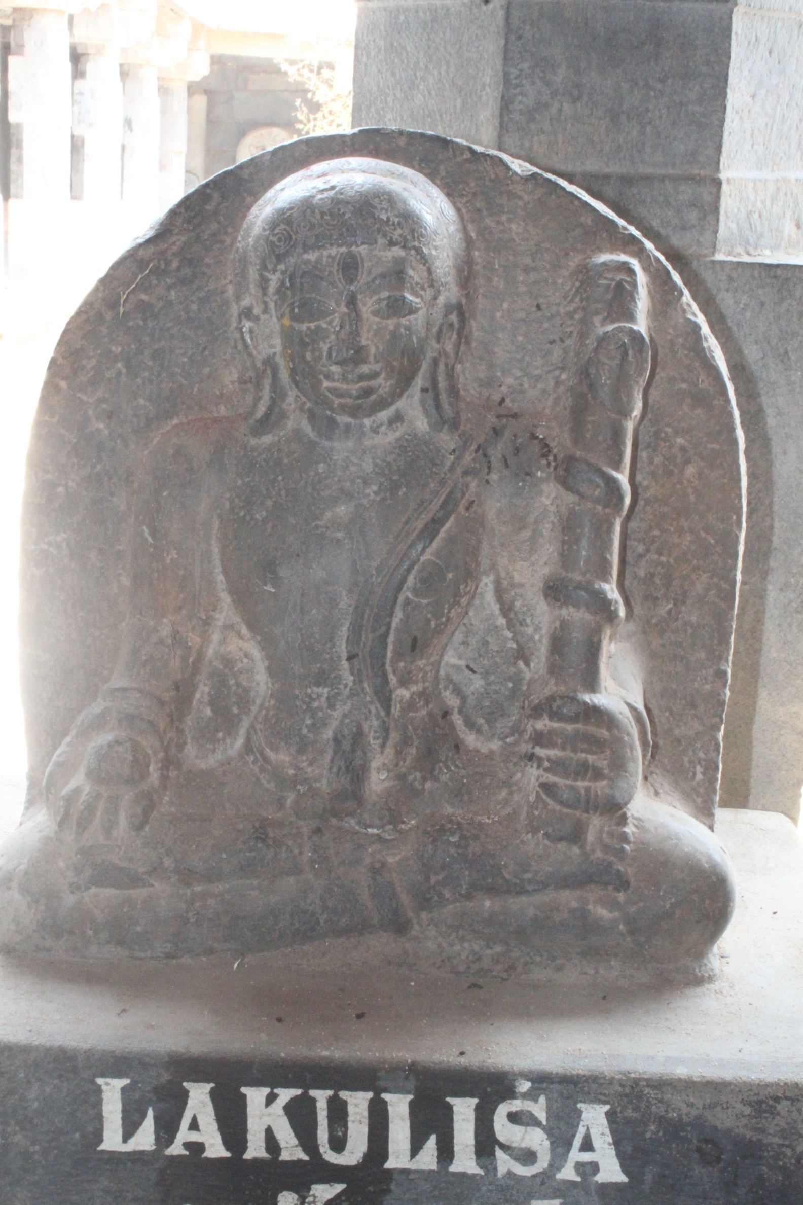 Sri Lakulisa